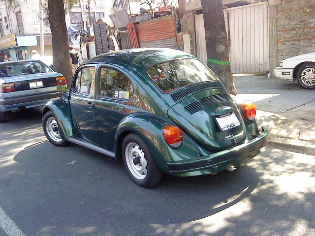 A 2003 Volkswagen Beetle in México.